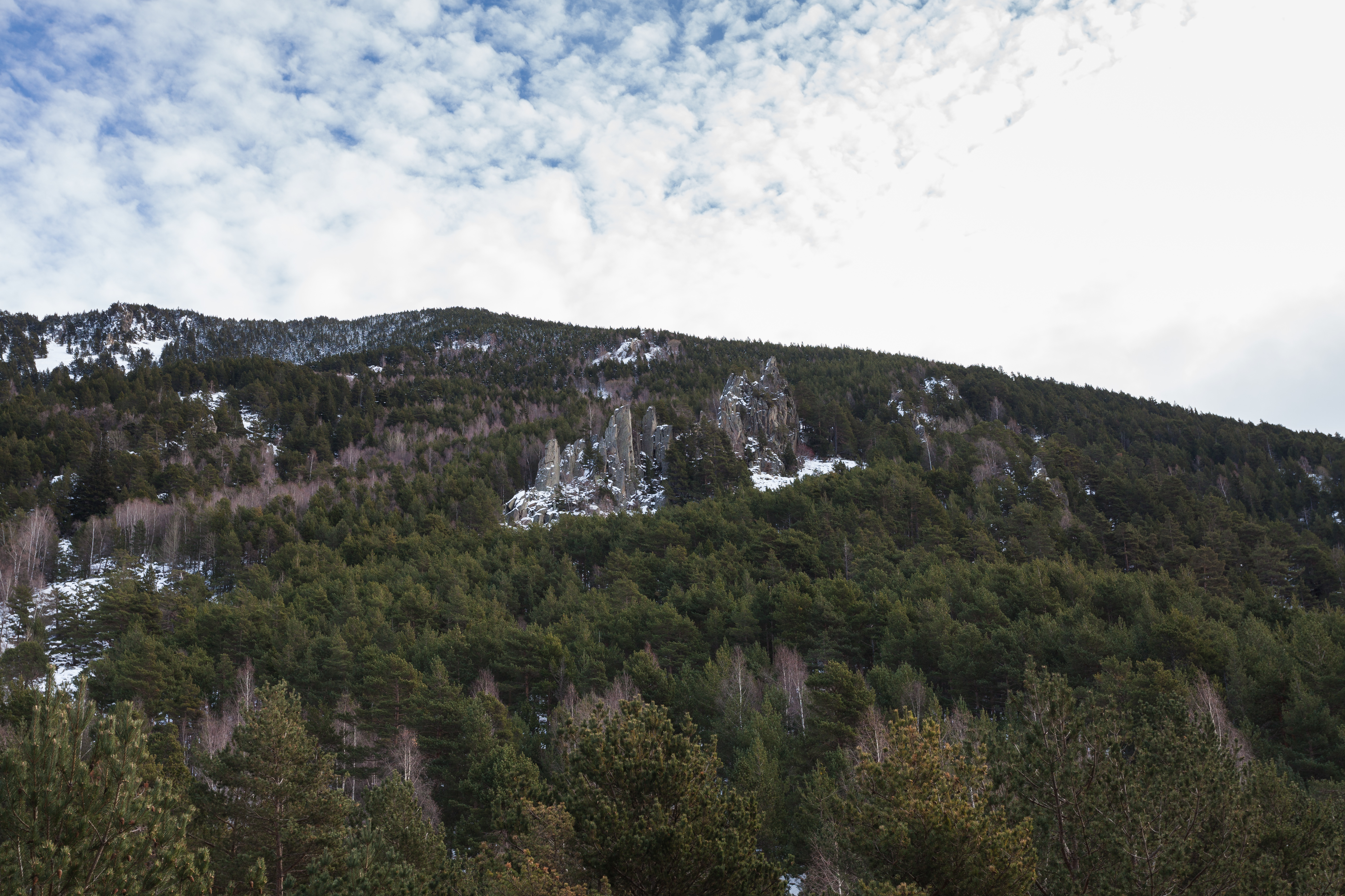 View of Engolasters, Andorra